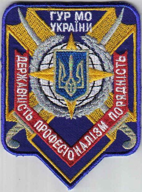 Sleeve patch for the Chief directorate of intelligence of the Ministry of Defence of Ukraine